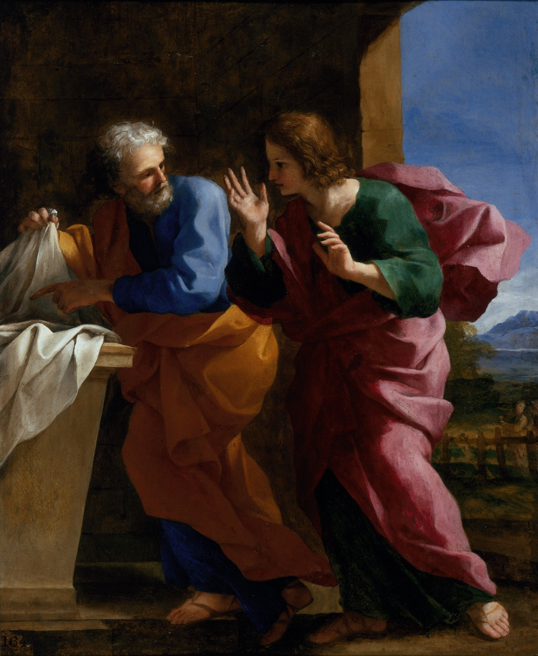 Italy, circa 1640 Paintings Oil on silvered copper Purchased with funds provided by Mr. and Mrs. Allan C. Balch (M.81.68) European Painting Currently on public view: Ahmanson Building, floor 3